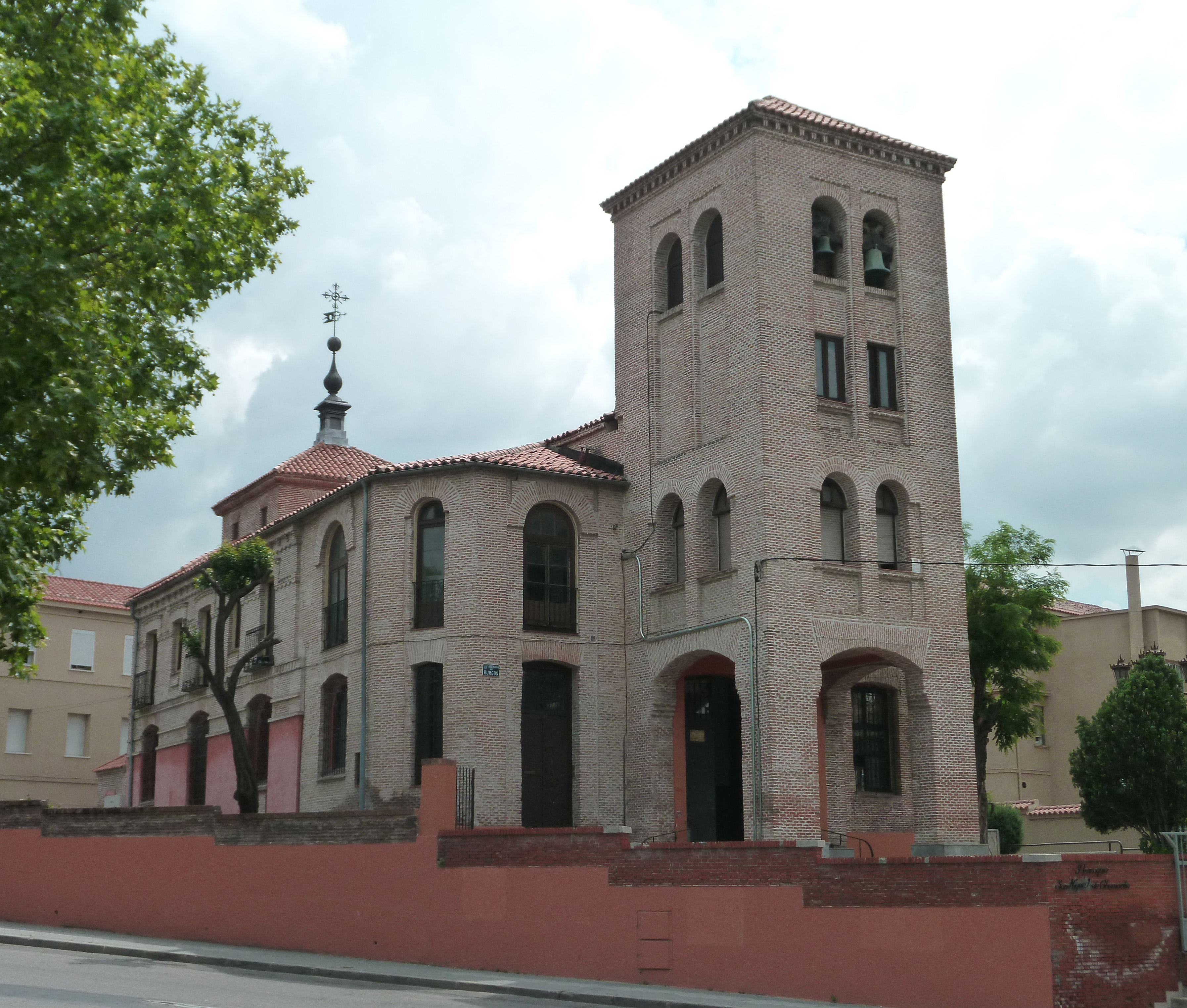 View of Iglesia de San Miguel de Chamartín ("St. Michael Church in Chamartín"), at 2nd Avenida de Burgos (avenue) in Chamartín district in Madrid (Spain). Built in the 16th century.